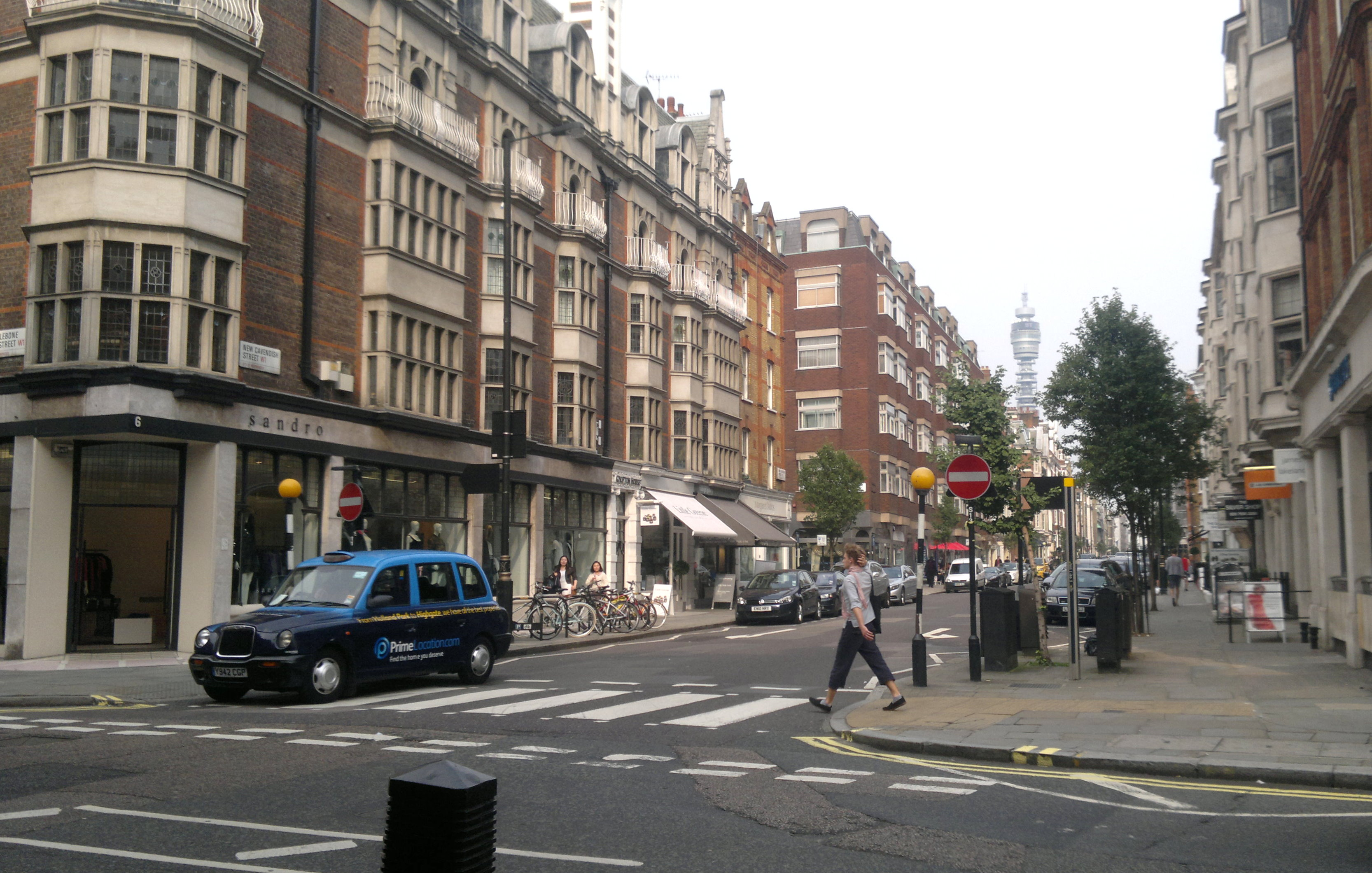 New Cavendish Street west, London 6 Sept 2014